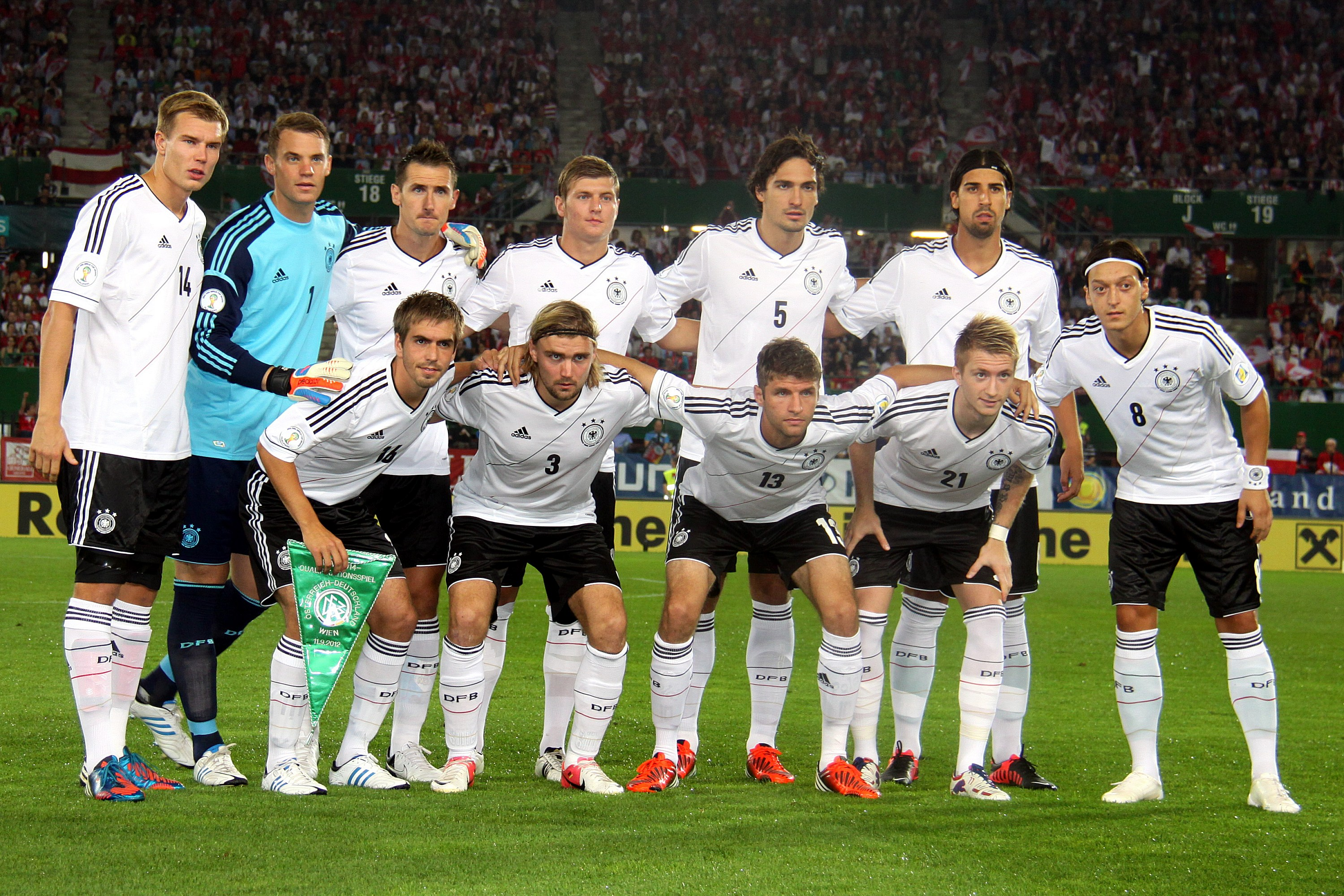 2014 FIFA World Cup qualification (UEFA), Group C: Germany national football team at 11. September 2012 before the match against the austrian national football team (2:1) in the Ernst-Happel-Stadion in Vienna.